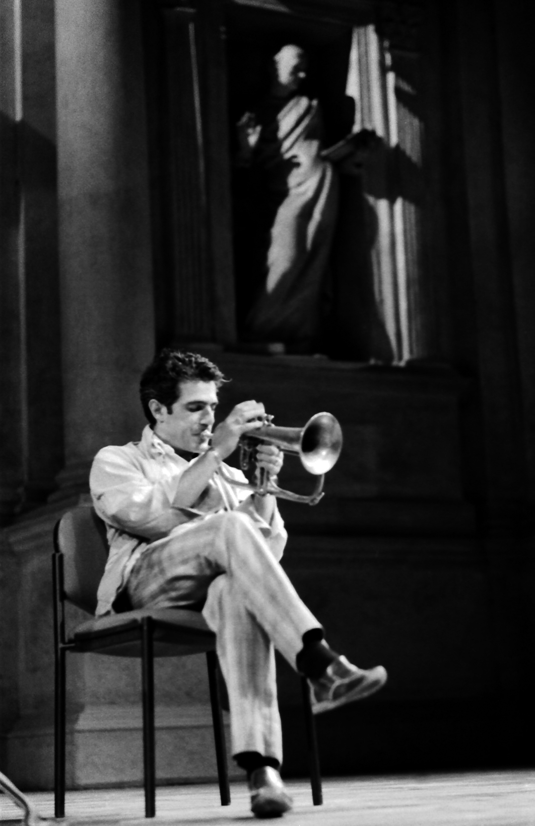 Paolo Fresu Vicenza Jazz Festival, May 2005.....- Italy -"Teatro Olimpico".......Andrea Palladio architect Paolo Fresu - Trumpet & Filicorno - in duo with Uri Caine - Piano